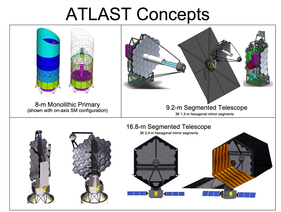 3 variations of the ATLAS Telescope Design